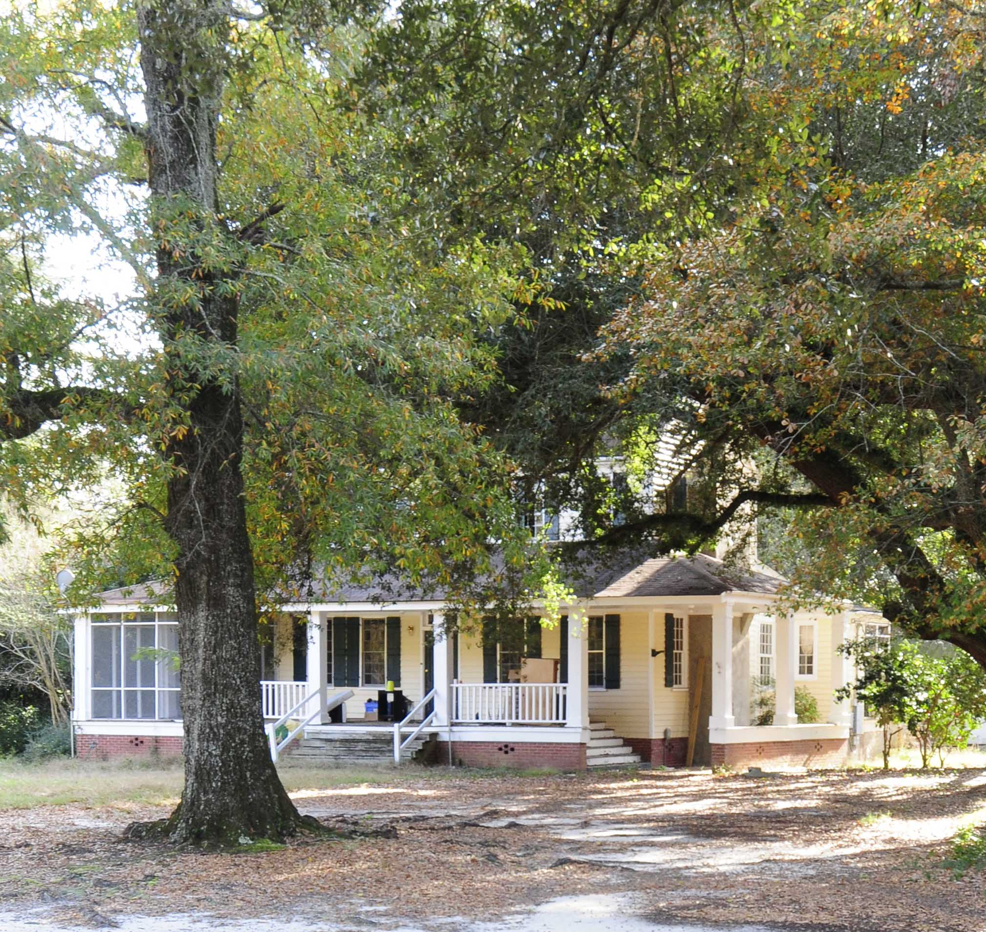 David Houser House, St. Mathews vicinity, South Carolina